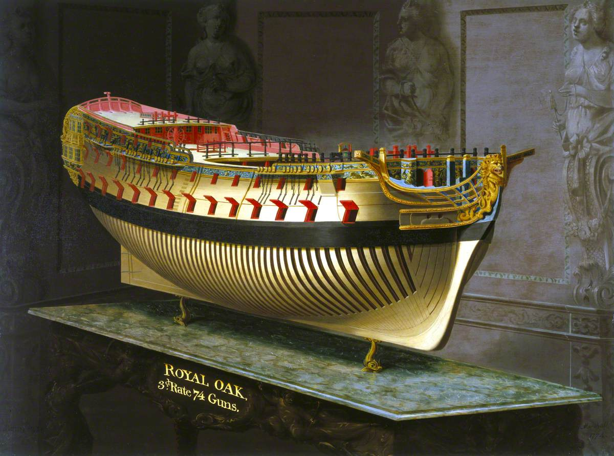 HMS 'Royal Oak', by Joseph Marshall Medium oil on panel Measurements H 56 x W 76 cm Accession number 1864-10/1